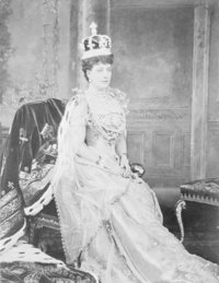 Alexandra of Denmark in her coronation robes darkened version of existing photo on Wikipedia. (a test)